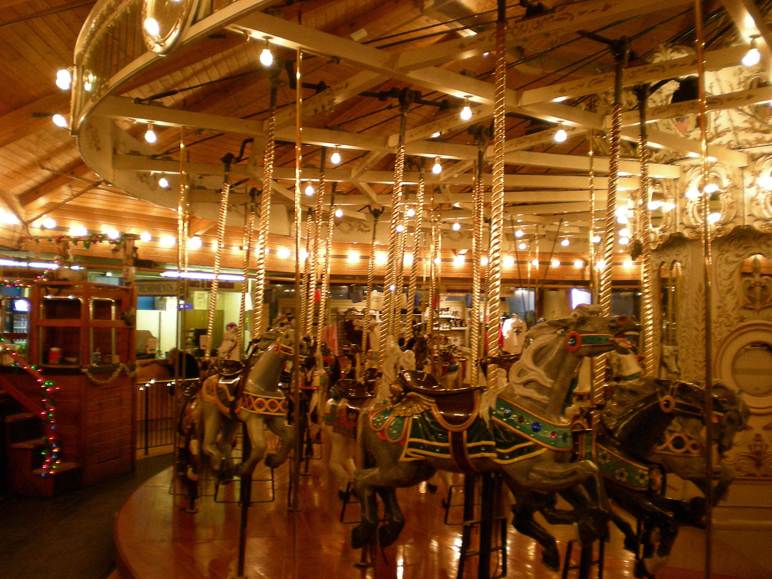 The Looff Carousel (aka the Natatorium Carousel) at Riverfront Park in Spokane, Washington